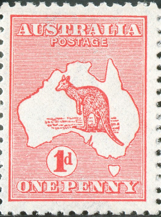 The first Australian stamp issued in 1913 depicting a kangaroo and map